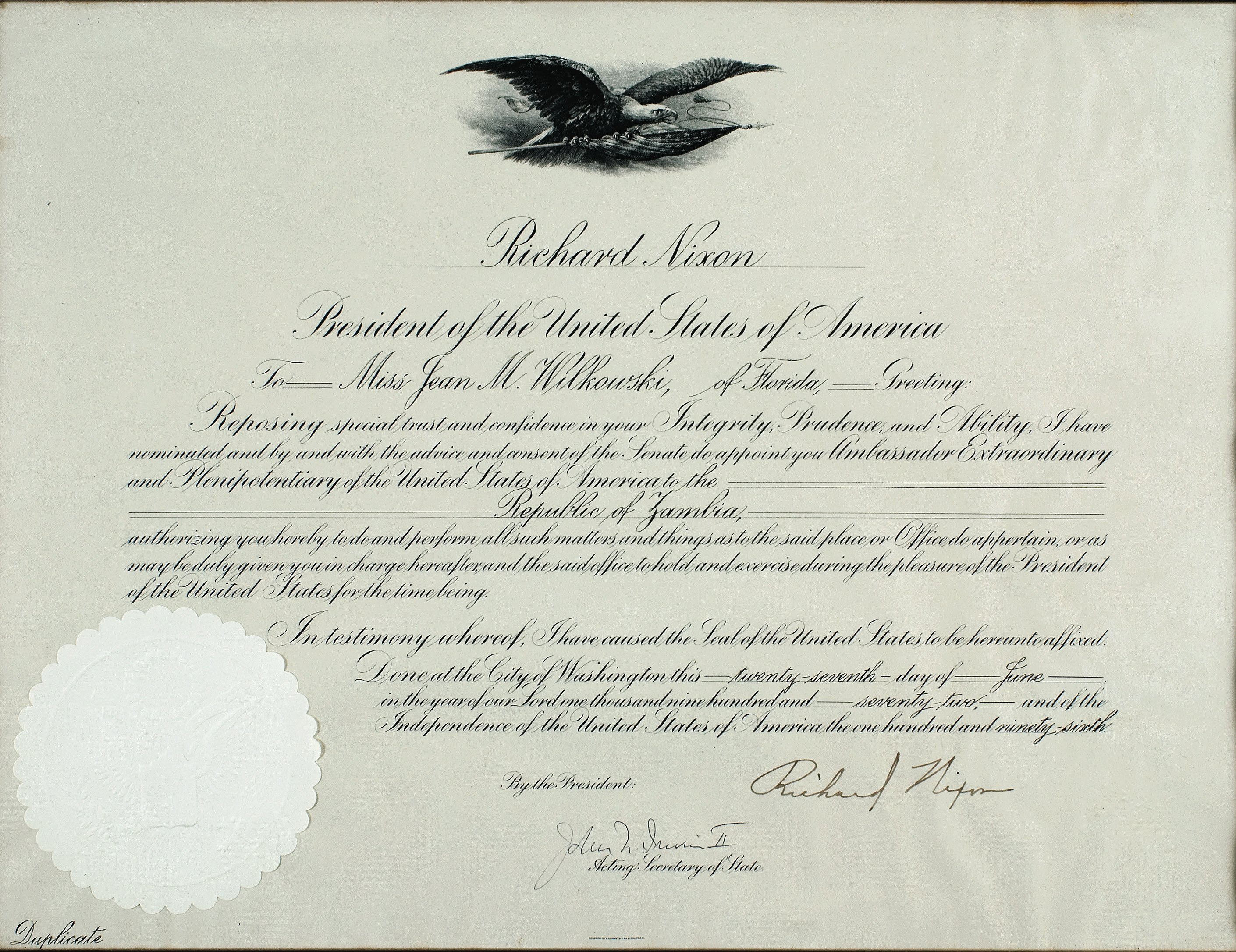 Commission for Jean Wilkowski as Ambassador to Zambia in 1972, signed by President Richard Nixon.